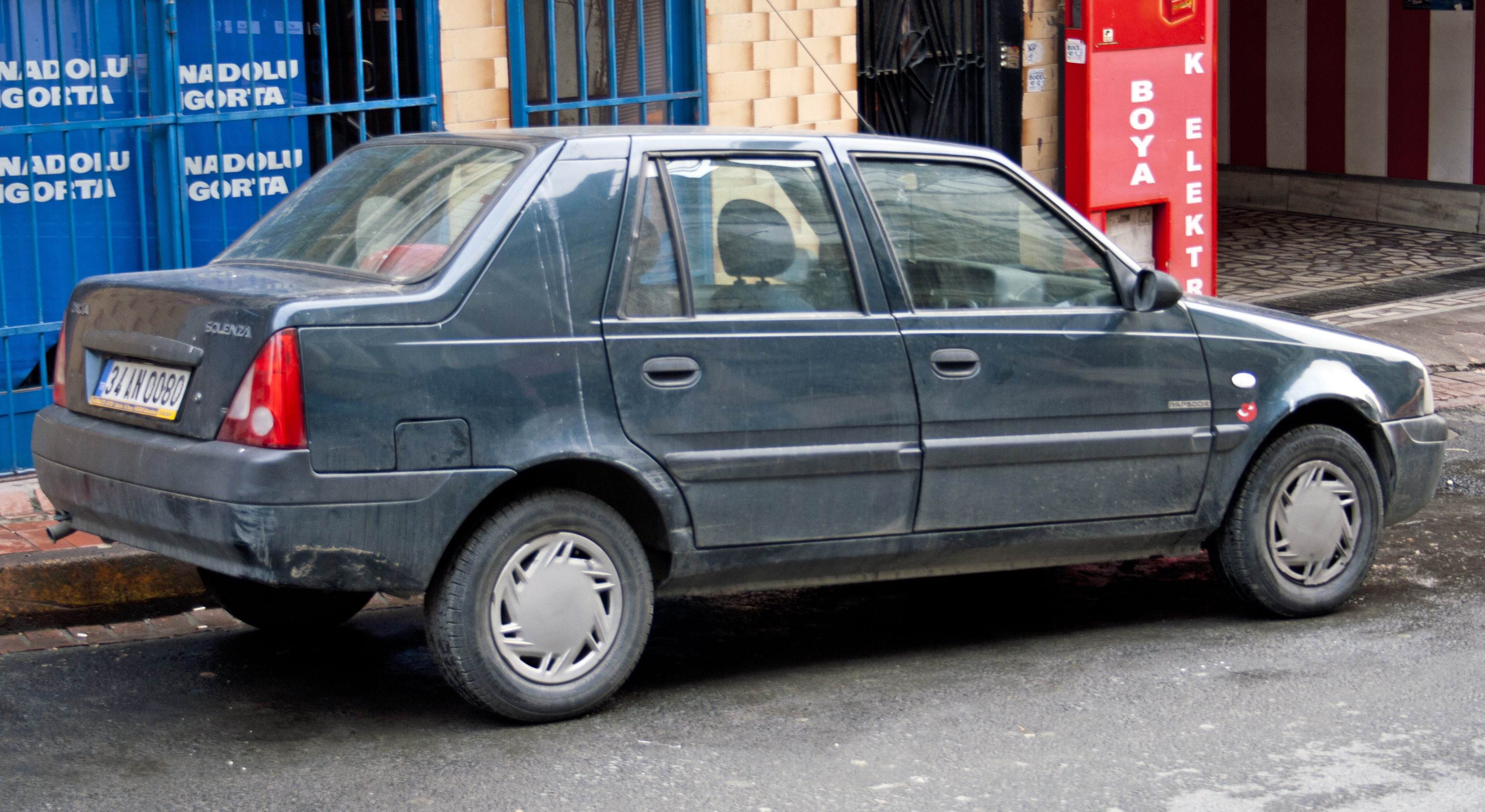 Dacia Solenza Rapsodie, the mid-line equipment level.